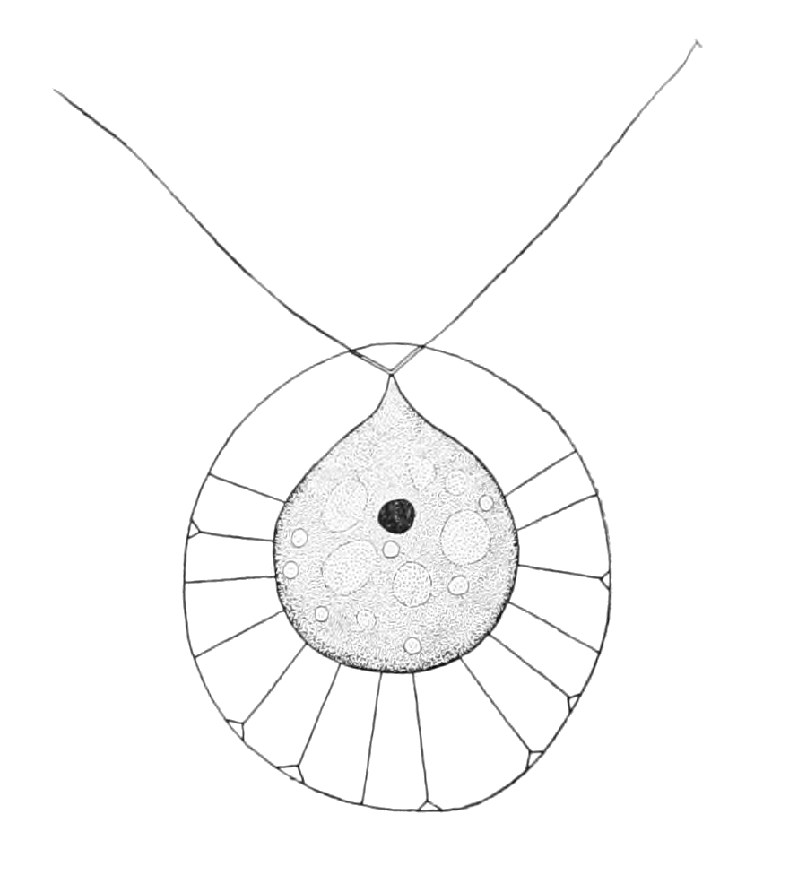 Drawing of Haematococcus pluvialis, after Hazen 700x